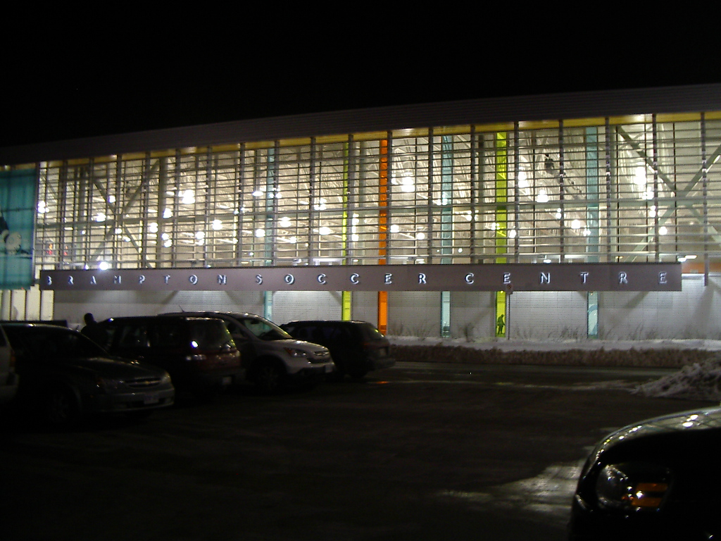 Brampton Soccer Centre at night